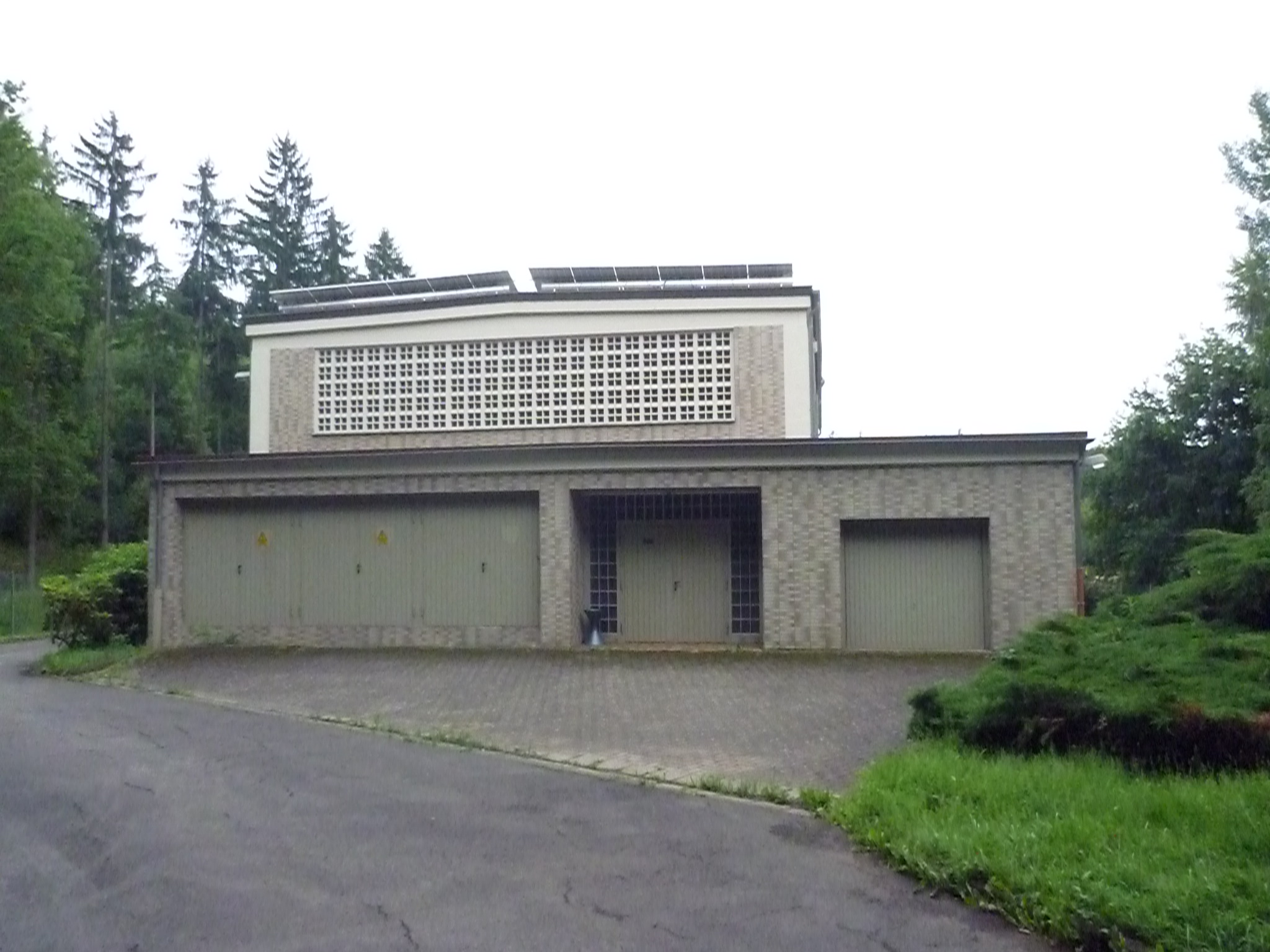 Pumping station at the Eschweilerhof (Neunkirchen/Saar)